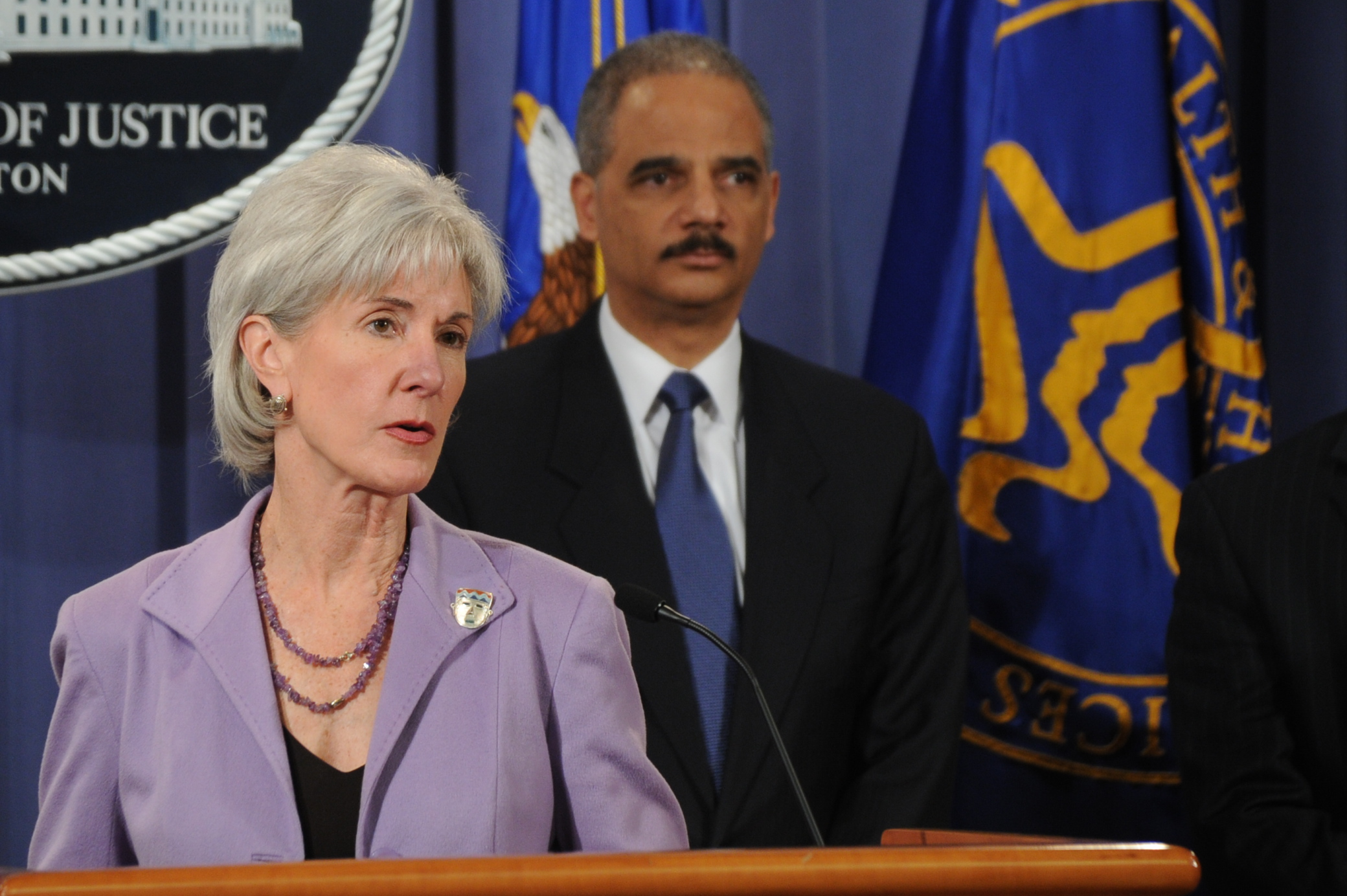 Sebelius and Holder announced that the Medicare Fraud Strike Force charged 111 defendants in nine cities, including doctors, nurses, health care company owners and executives, and others, for their alleged participation in Medicare fraud schemes involving more than $225 million in false billing. HHS photo by Chris Smith